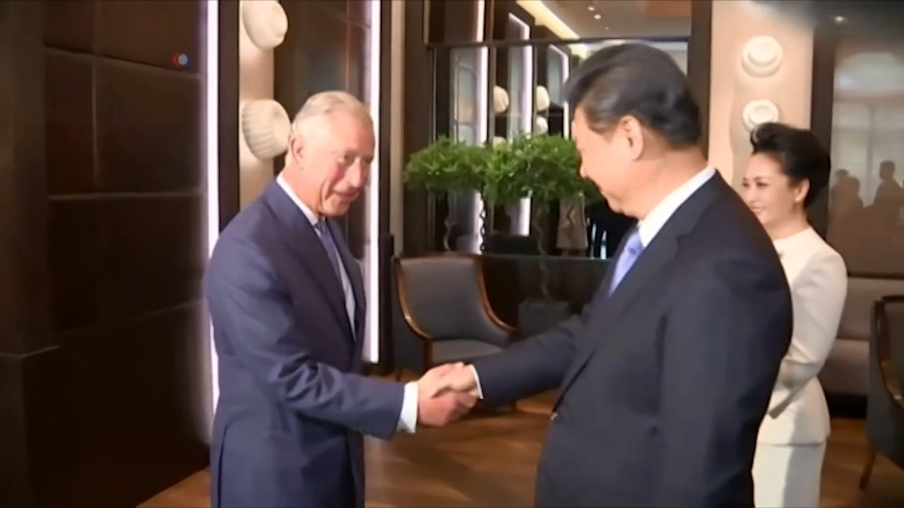 Xi Jinping meets Prince Charles,The Prince of Wales,a screenshot of VOA video news